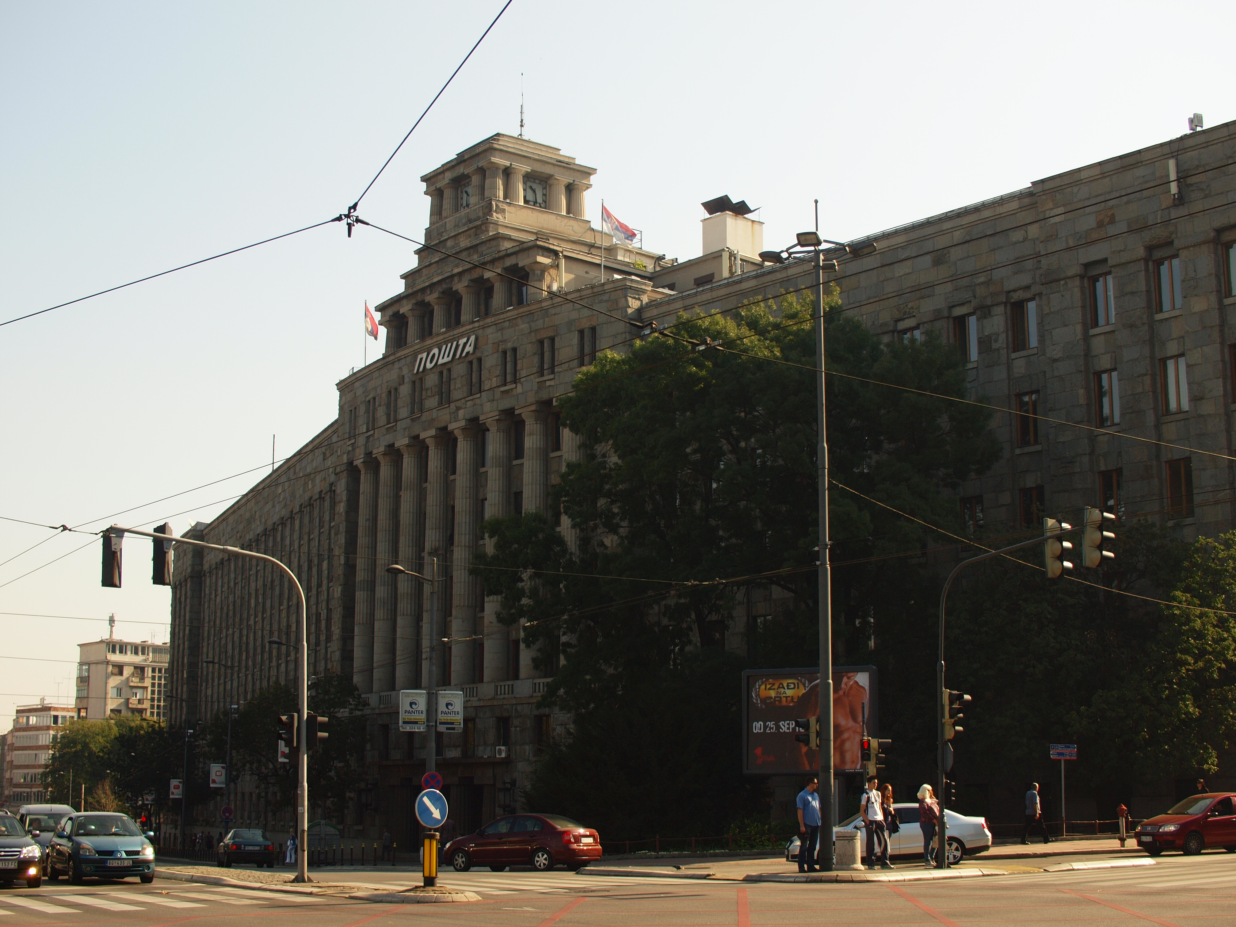 glavana posta srbije belgrade